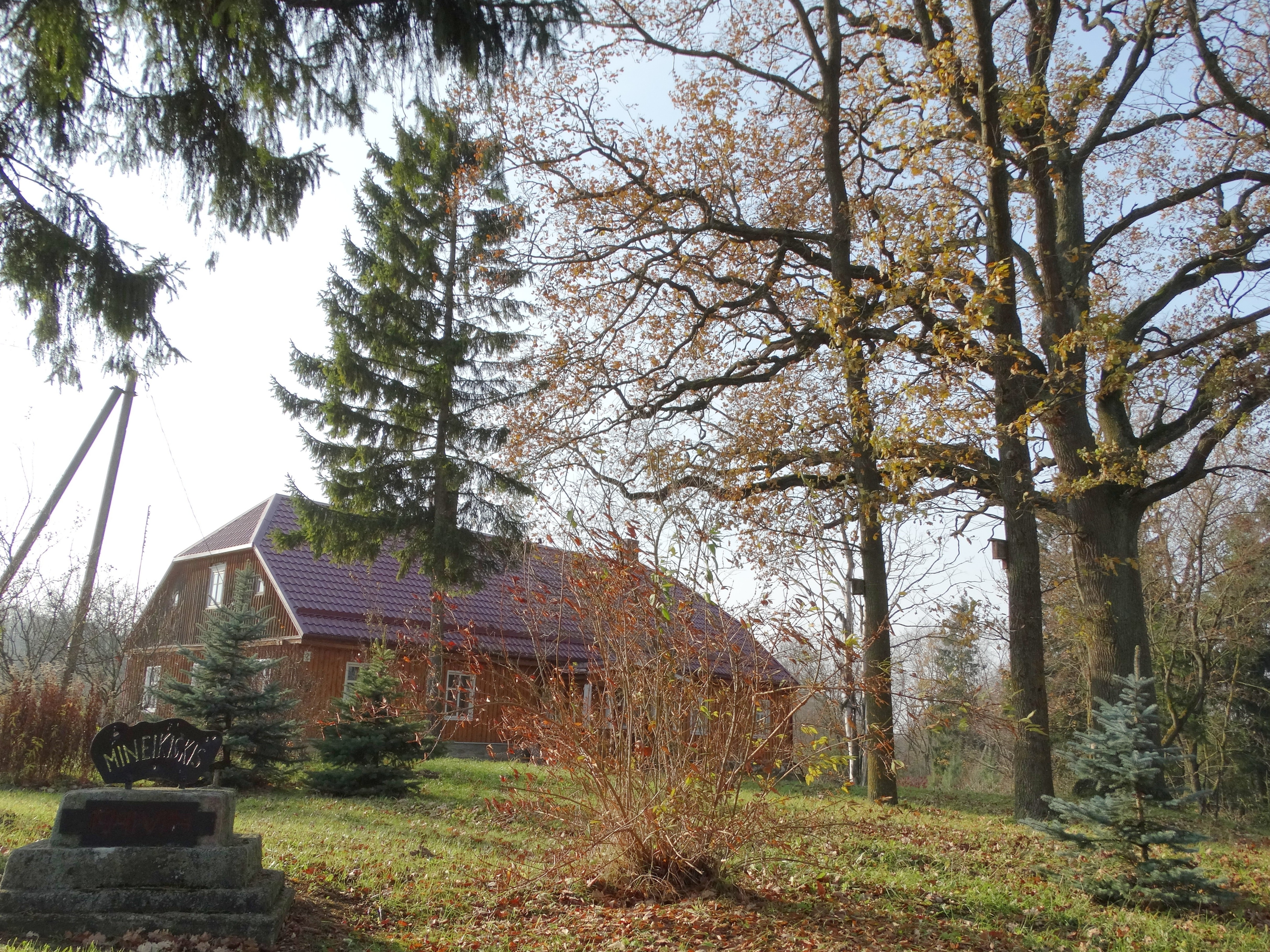 Kiemeliai, Pasvalys District, Lithuania